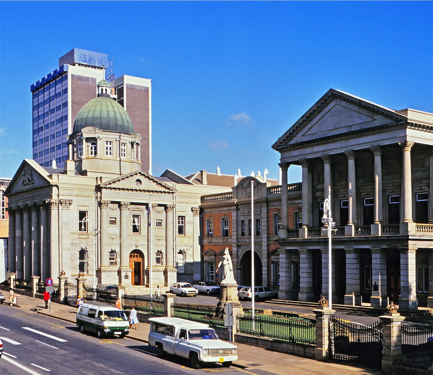 This media shows a South African Protected Site with SAHRA file reference 9/2/436/0042.